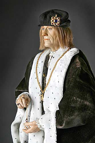 Historical figure of King Henry VII of England